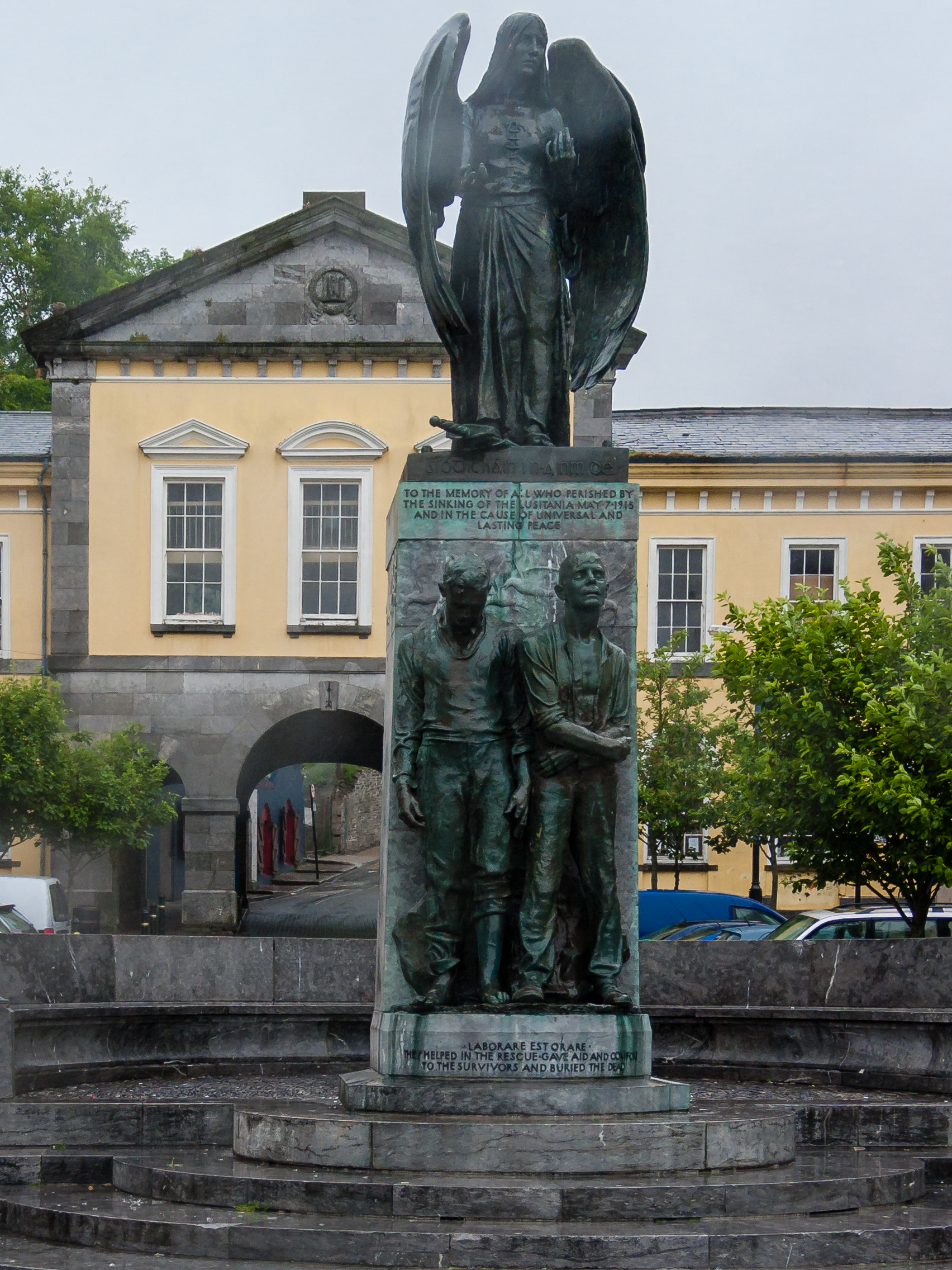 Lusitania Memorial in Cobh, Co. Cork